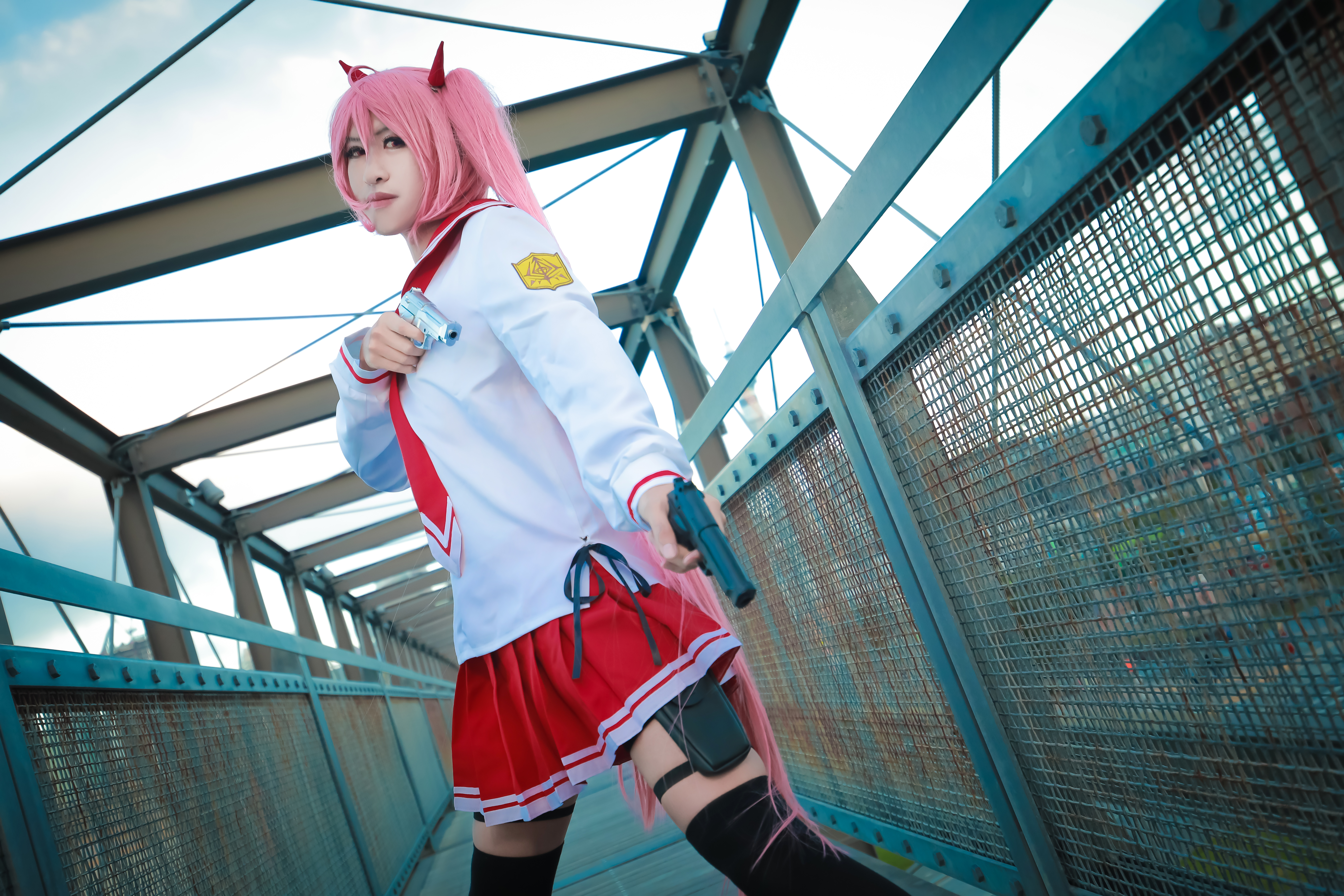 Aria H. Kanzaki from Aria the Scarlet Ammo, cosplay by 結佳梨Yukari and photography by DPS Photography Studio at the Silo Park, Auckland. #ariathescarletammo #crossdressing #crossdress #crossdresser #crossplay #crossplayer #cosplay #cosplayer #nzcosplay #cosplaynewzealand #cosplayboy #cosplaygirl #animeboy #animegirl #伪娘 #女装子 #女装男子 #男の娘 #絶対領域 #コスプレ #アニメ #セーラー服 #kawaii #kawaiicosplay